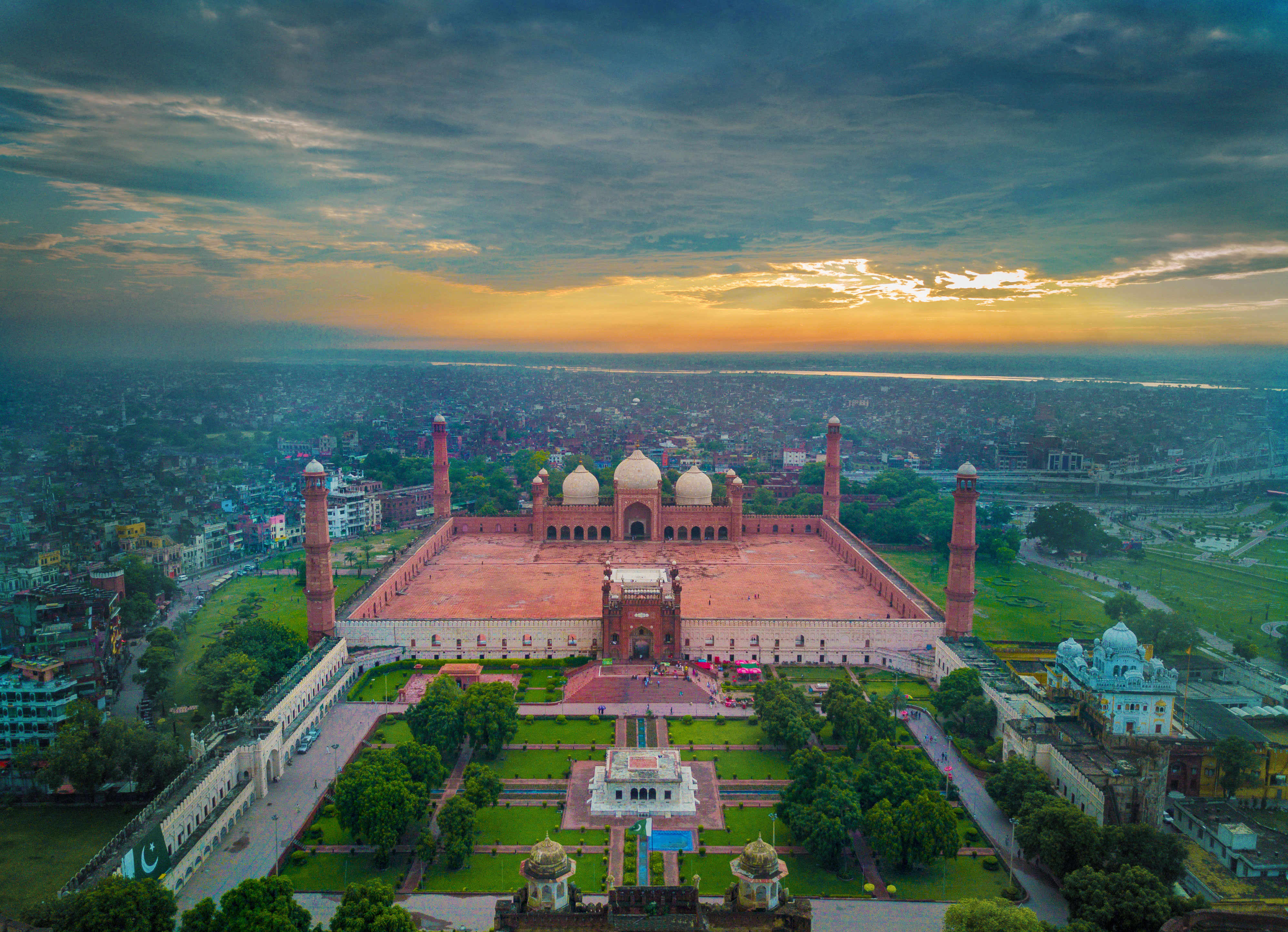 Badshahi Mosque (King’s Mosque) This is a photo of a monument in Pakistan identified as the PB-44